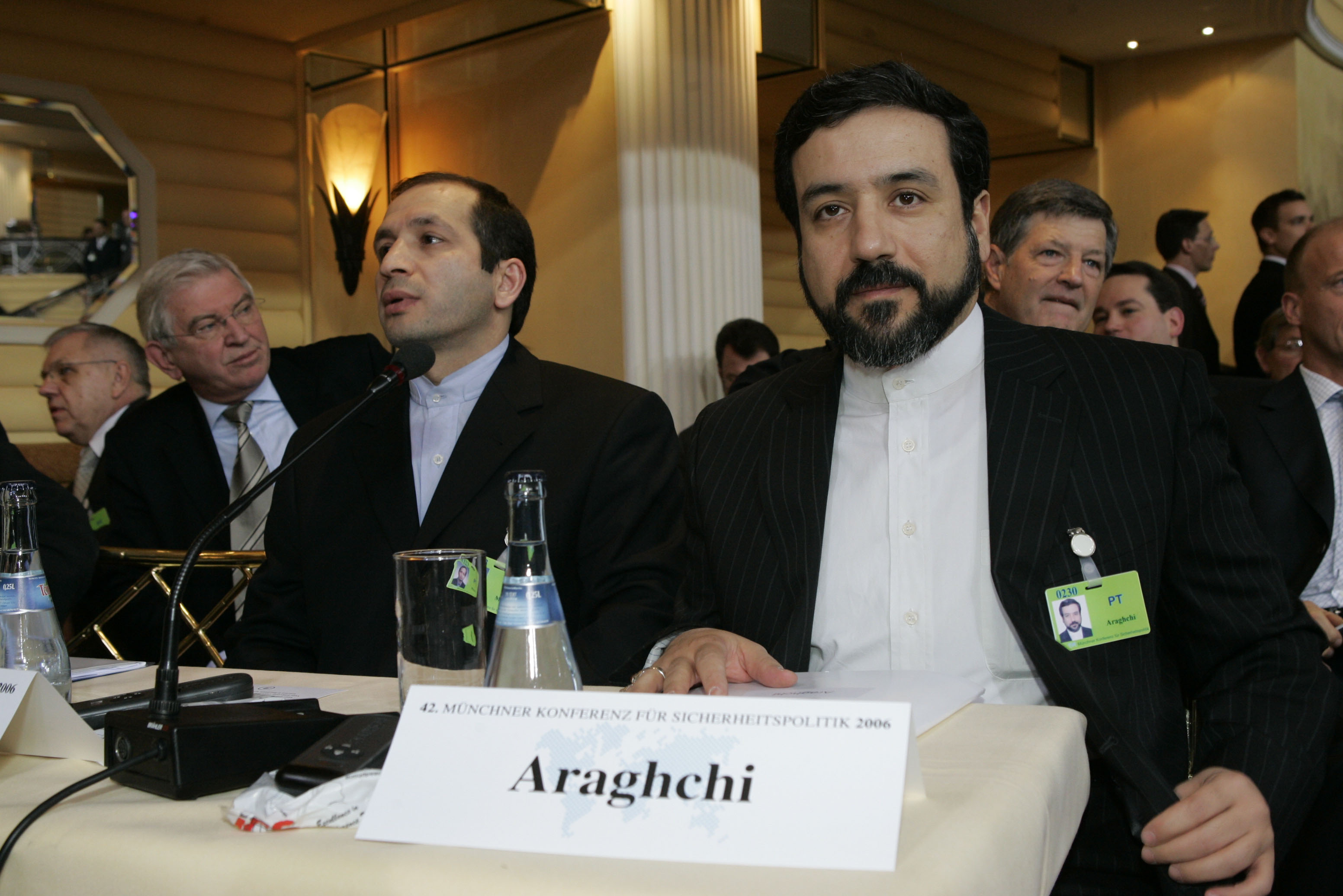 42nd Munich Security Conference 2006: (Ri.) The Deputy Foreign Minister for Legal and International Affairs, Iran, Abbas Araghchi.